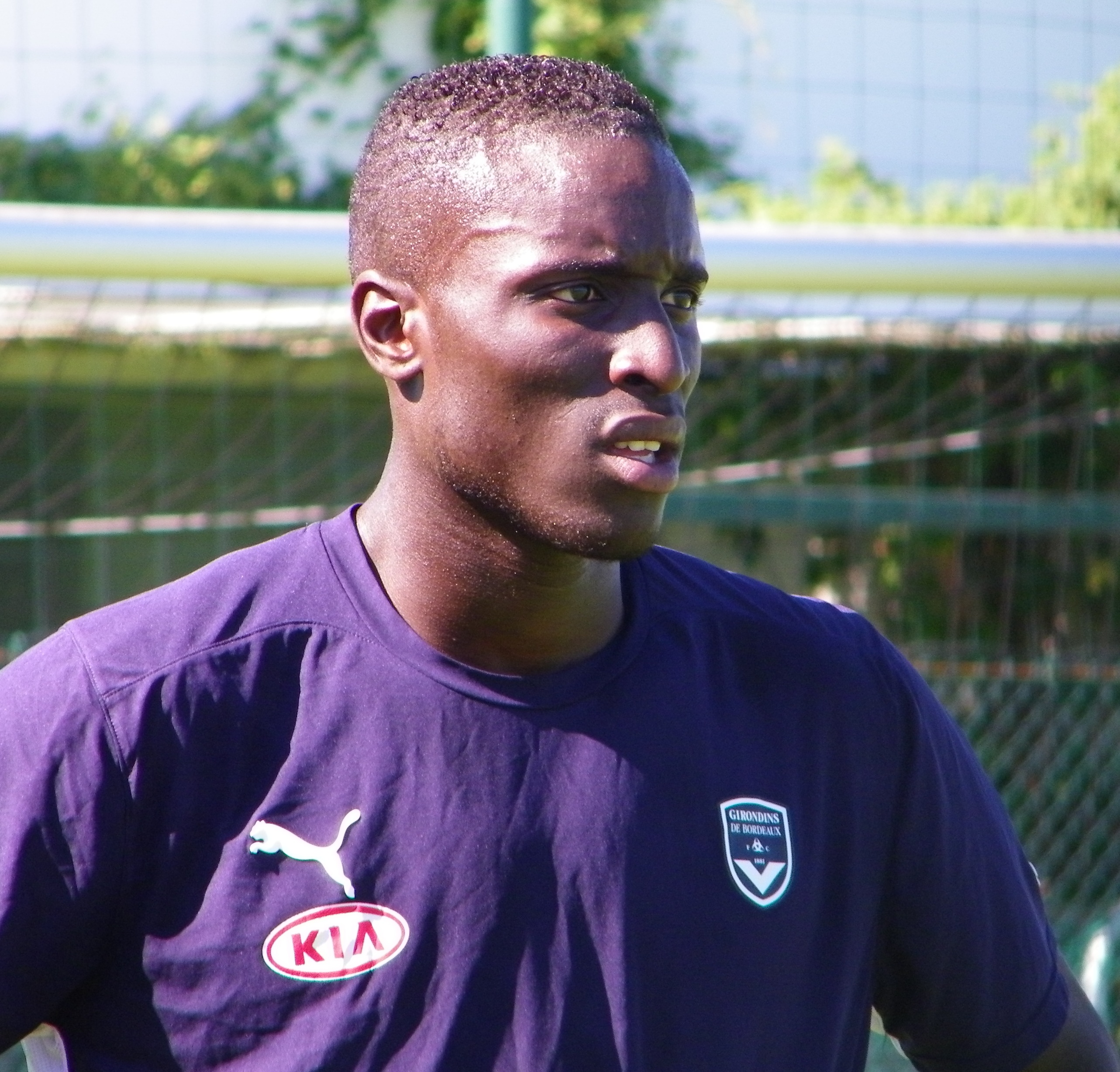 Sané